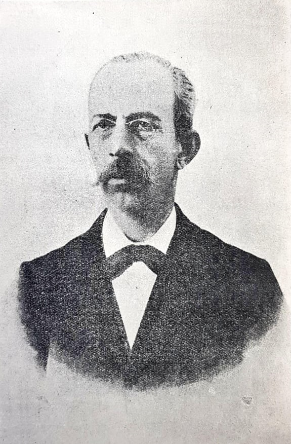 Ibrahim Al-Yazigi, Lebanese philologist, poet and journalist (1847-1906).